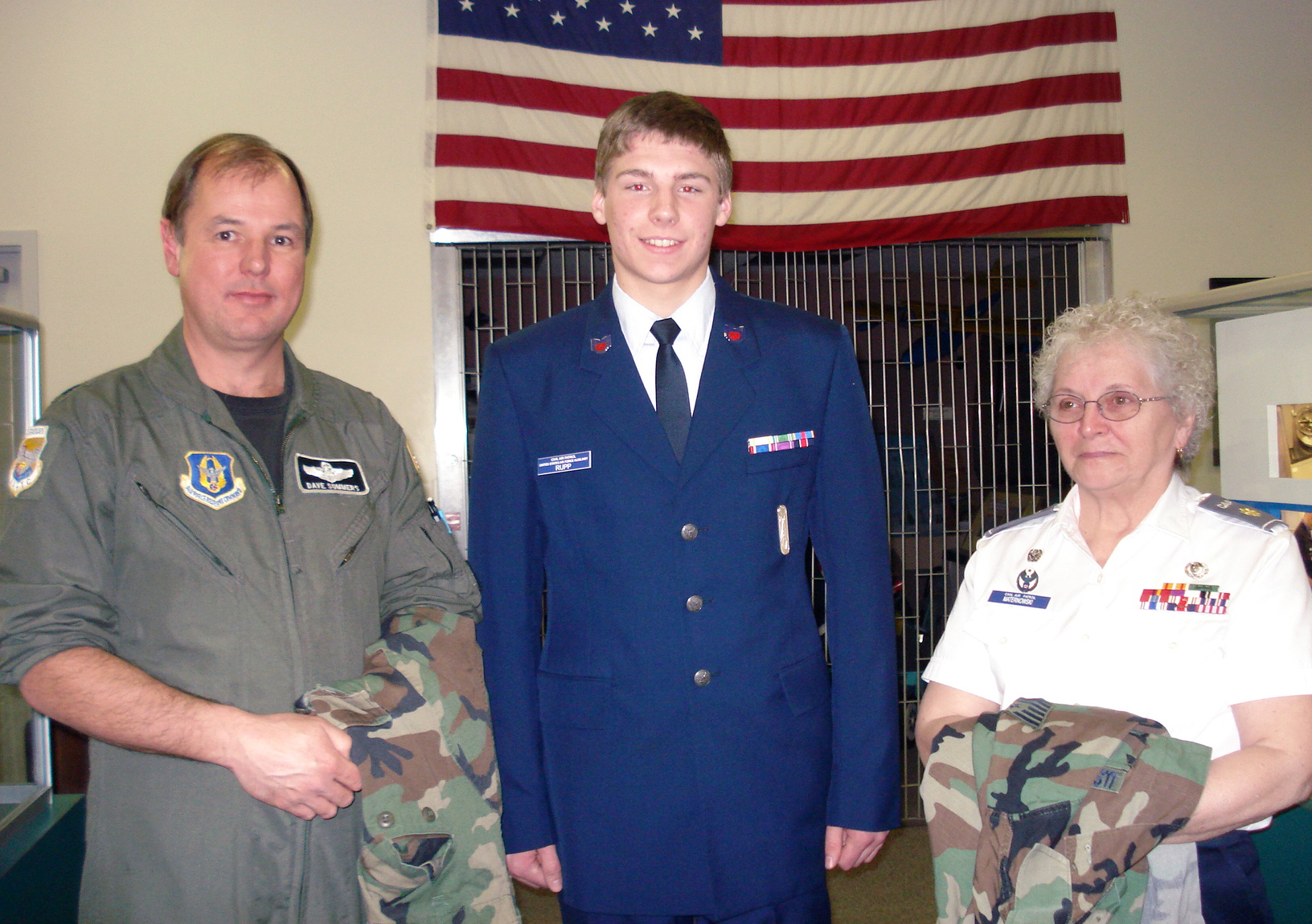 Lt. Col. Dave Sommers (left) delivers uniforms donated by Niagara Falls Air Reserve Station Airmen to Civil Air Patrol members Cadet Rupp and squadron commander Maj. Ellen Maternowski January 6, 2011 Jamestown, NY. (U.S. Air Force courtesy photo)